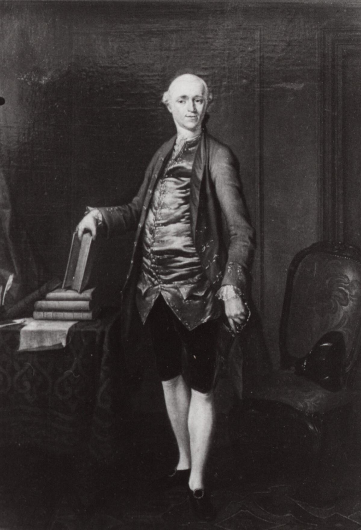 Portrait of Tonco Modderman (1745-1802)